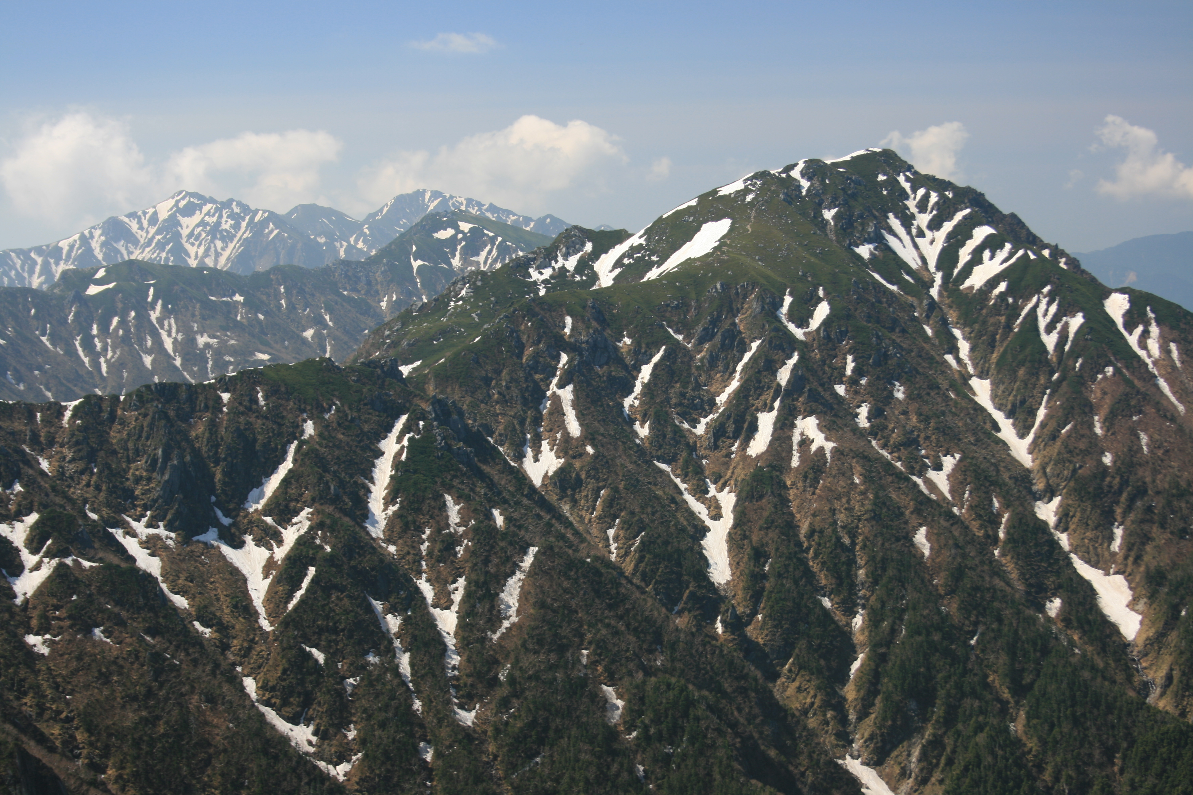 Mount Sannosawa and Mount Utsugi seen from Mount Kisokoma in Kiso Mountains, Nagano Prefecture, Japan.